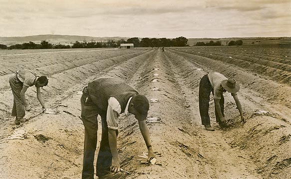 Harvesting Asparagus, Bathurst Dated: No date Digital ID: 12932-a012-a012X2443000171 Rights: We'd love to hear from you if you use our photos. Many other photos in our collection are available to view and browse on our website using Photo Investigator .